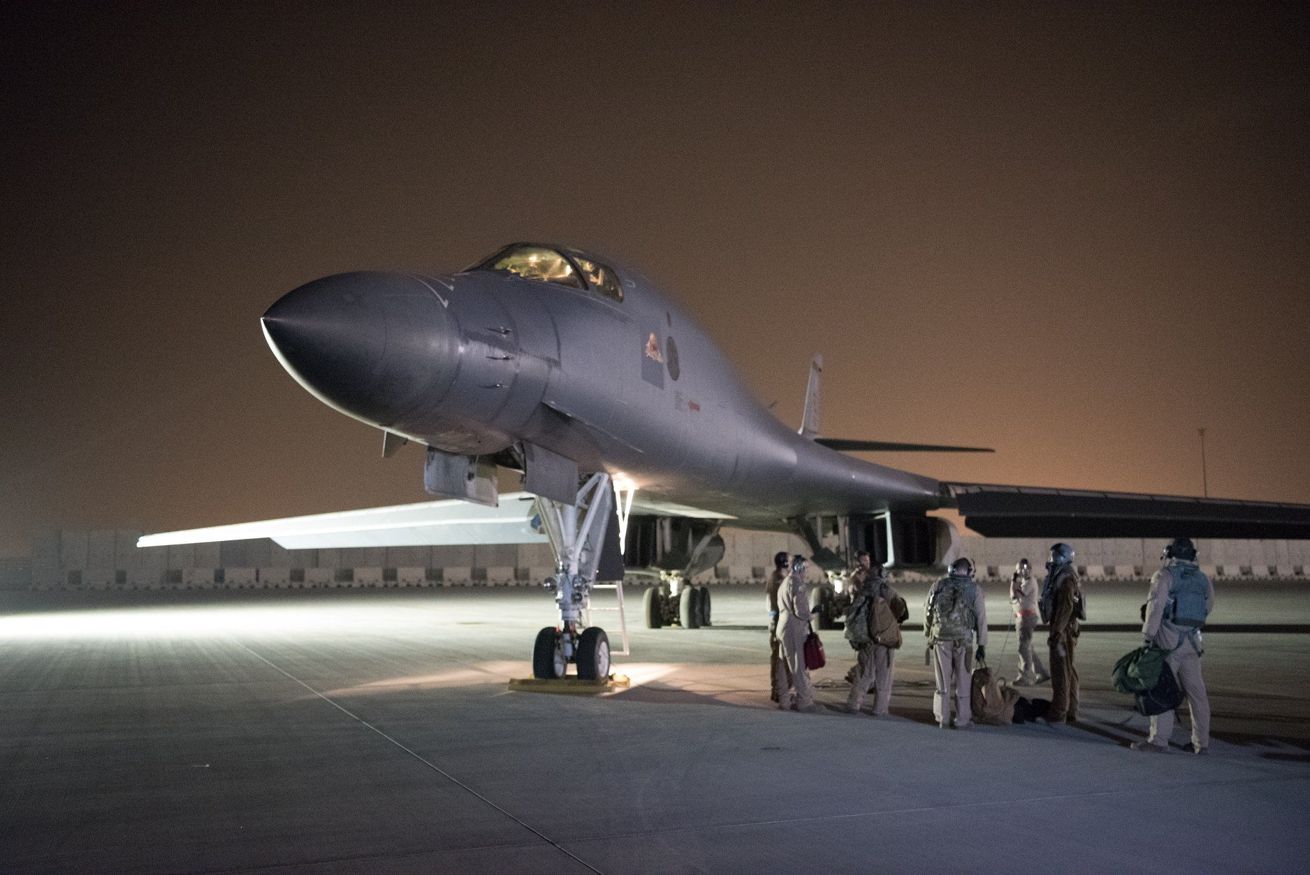 A 34th Expeditionary Bomb Squadron B-1B Lancer deployed to the 379th Air Expeditionary Wing prepares to launch a strike mission from Al Udeid AIr Base, Qatar, April 13, in support of the multinational response to Syria's recent use of chemical weapons. Two B-1Bs, deployed to Al Udeid AB from Ellsworth AFB, S.D., employed 19 Joint Air to Surface Standoff Missile-Extended Range (JASSM-ER), marking the first combat employment of the weapon.